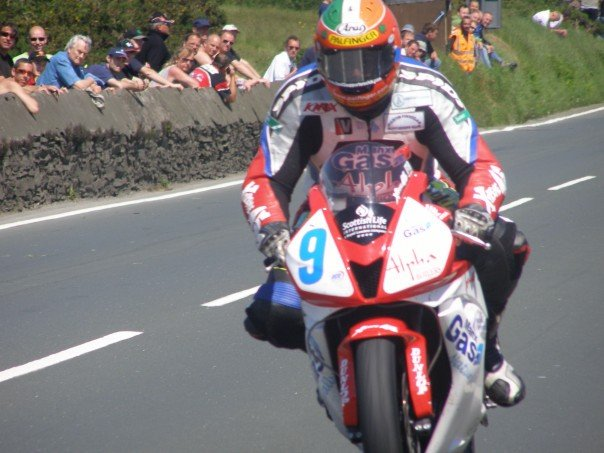 finnegan at hillberry isle of man tt 07